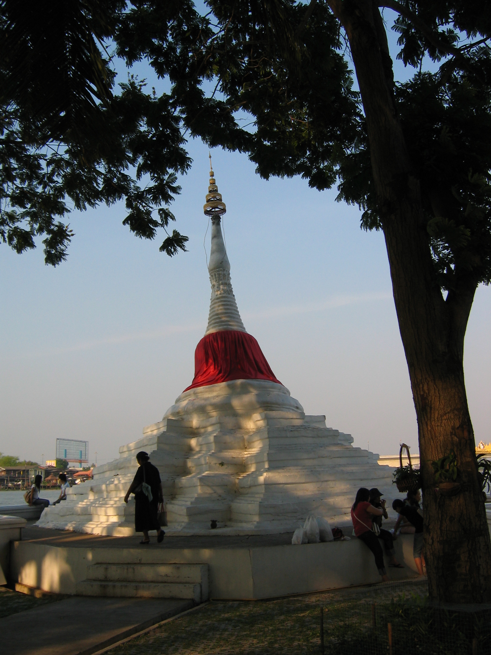 Leaning chedi on the northeast corner of Ko Kret, Thailand. The architecture is Mon-style.